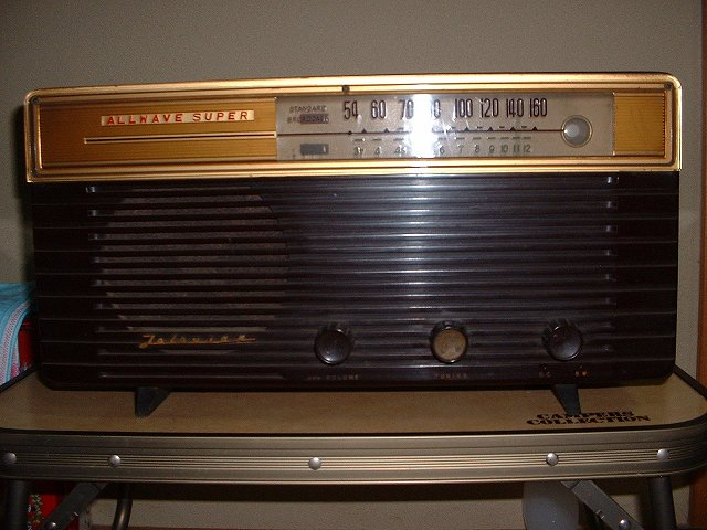 A 5-tubes superhet receiver made in Japan about 1955. Picture taken by Starbacks. GFDL-licensed